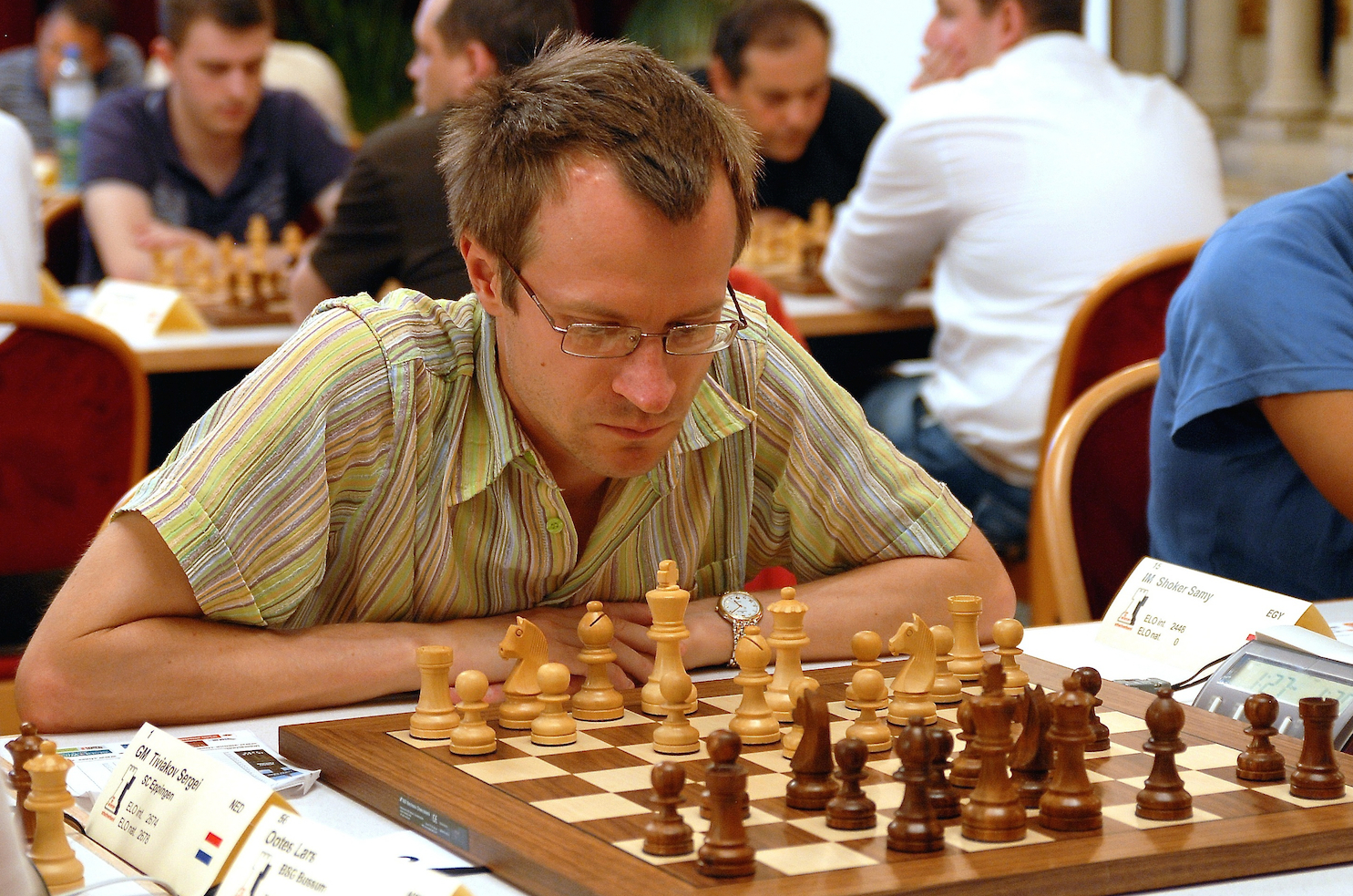 Sergei Tiviakov, International Chess-Tournament at Rathaus Vienna